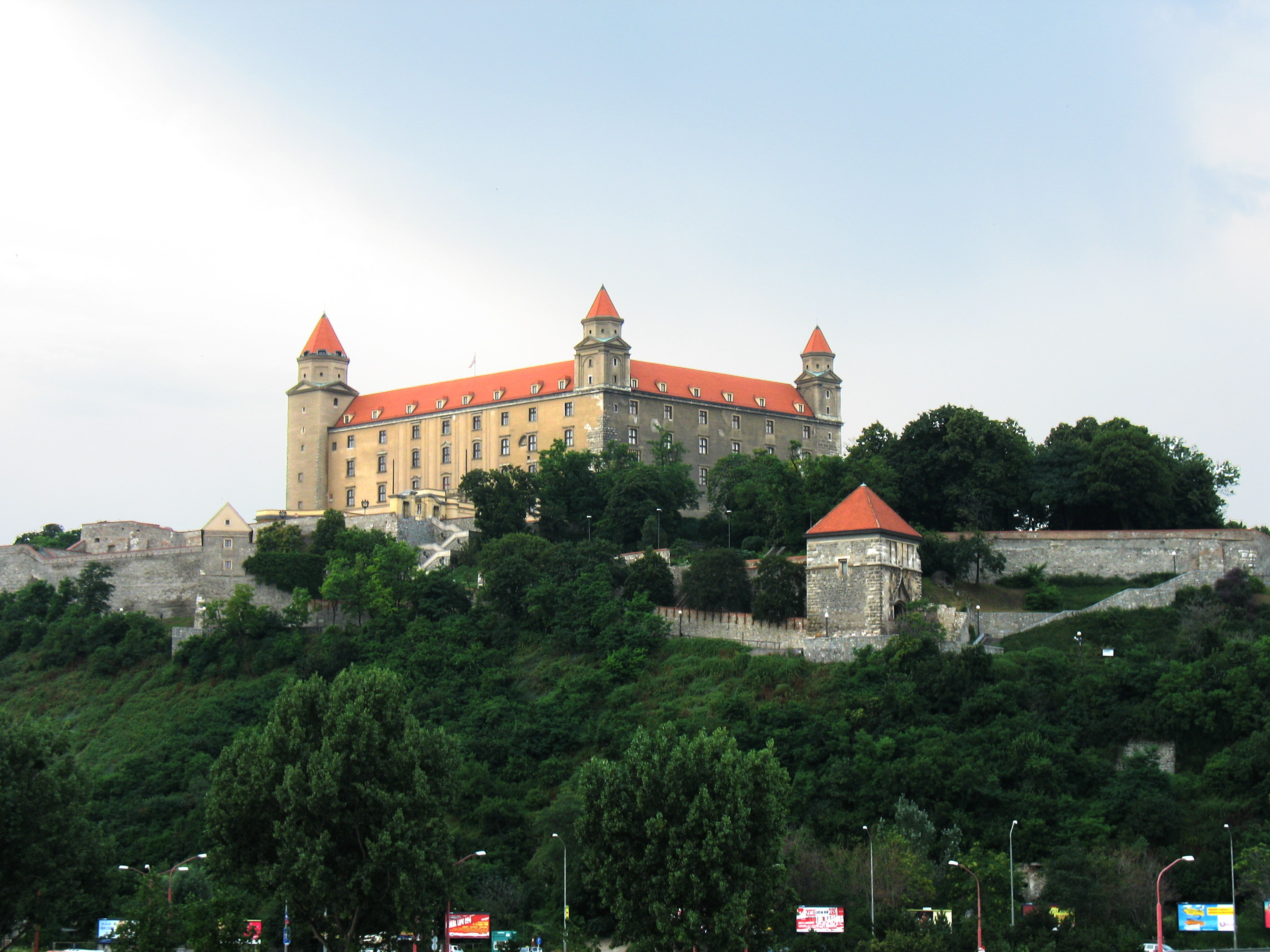 The castle of Bratislava, Slovakia